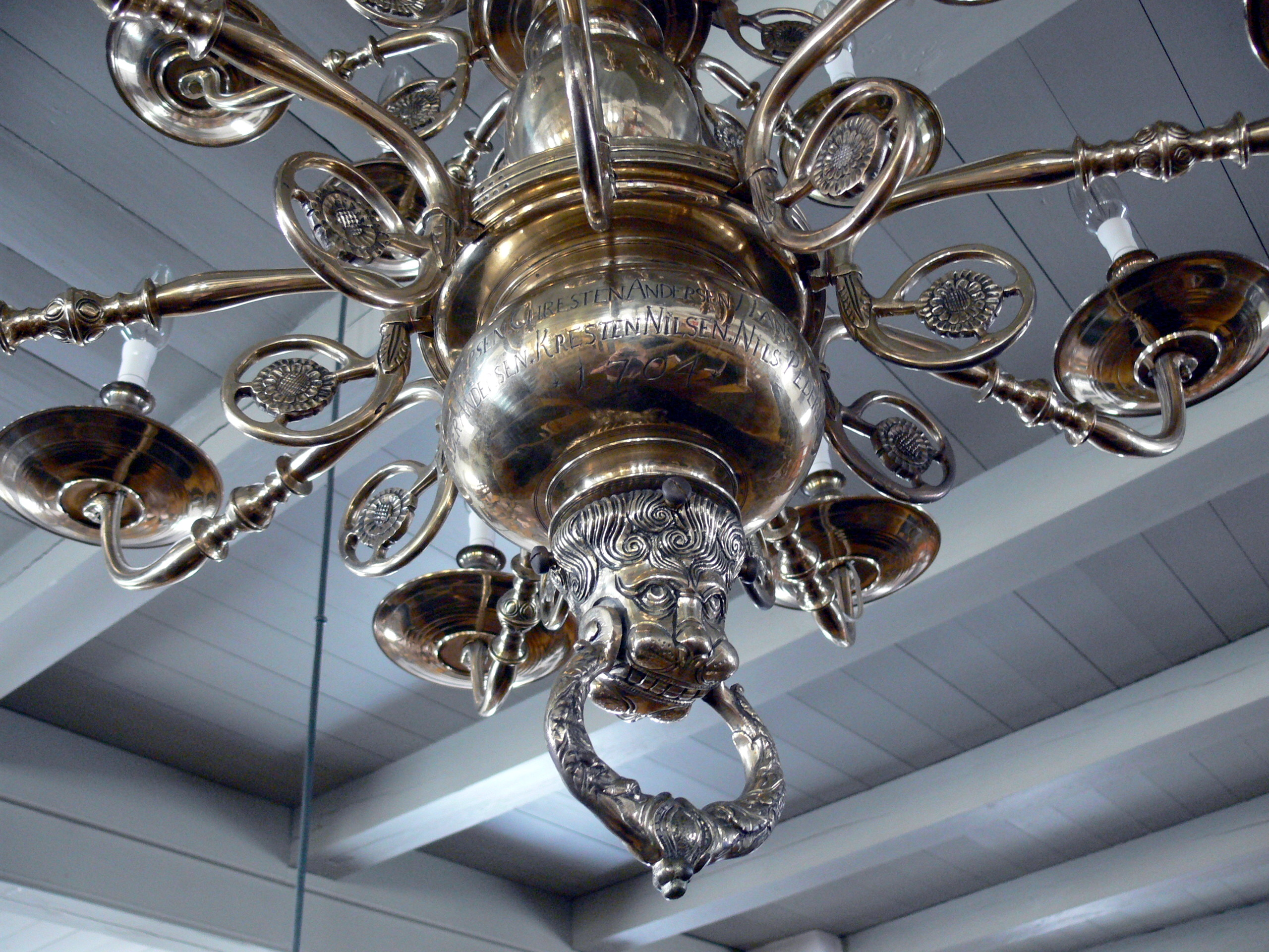 St.Clemens church on Rømø, Denmark. Candelabrum dedicated in 1704 by a whaling captain.